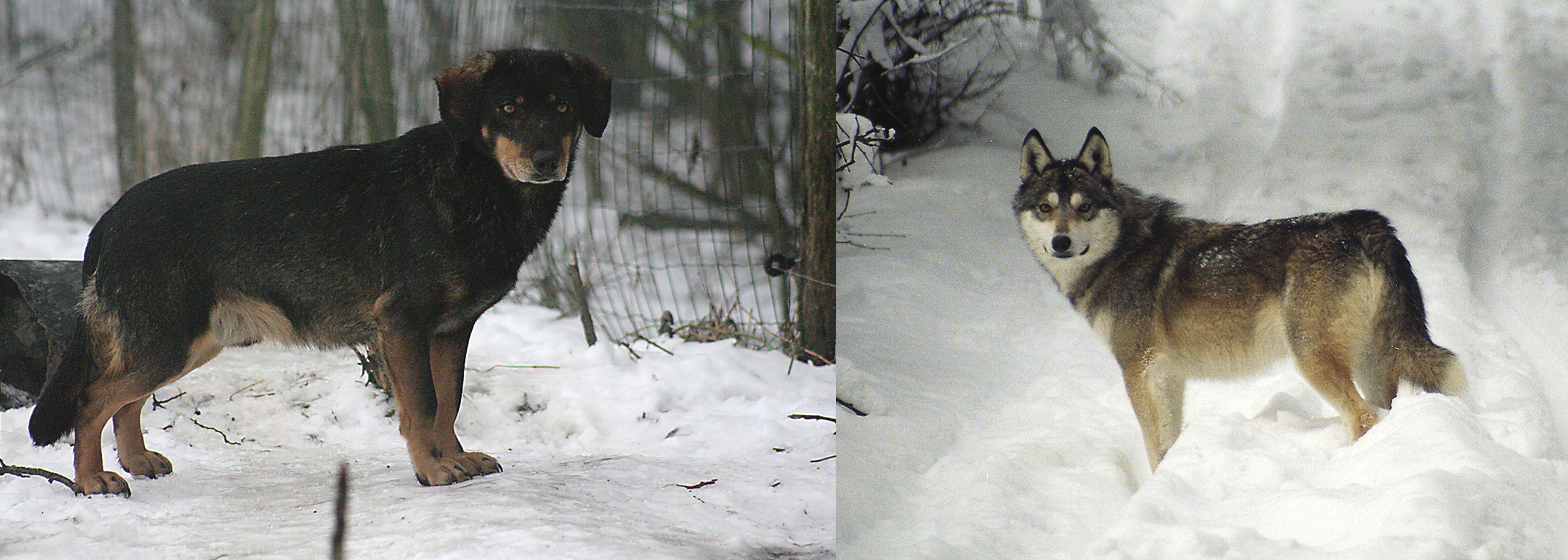 First-generation (F1) wolf-dog hybrids from Wildlife Park Kadzidlowo, Poland: female wolf×male Polish Spaniel (left); female wolf×West Siberian Laika (right) (photos: A. Krzywinski).